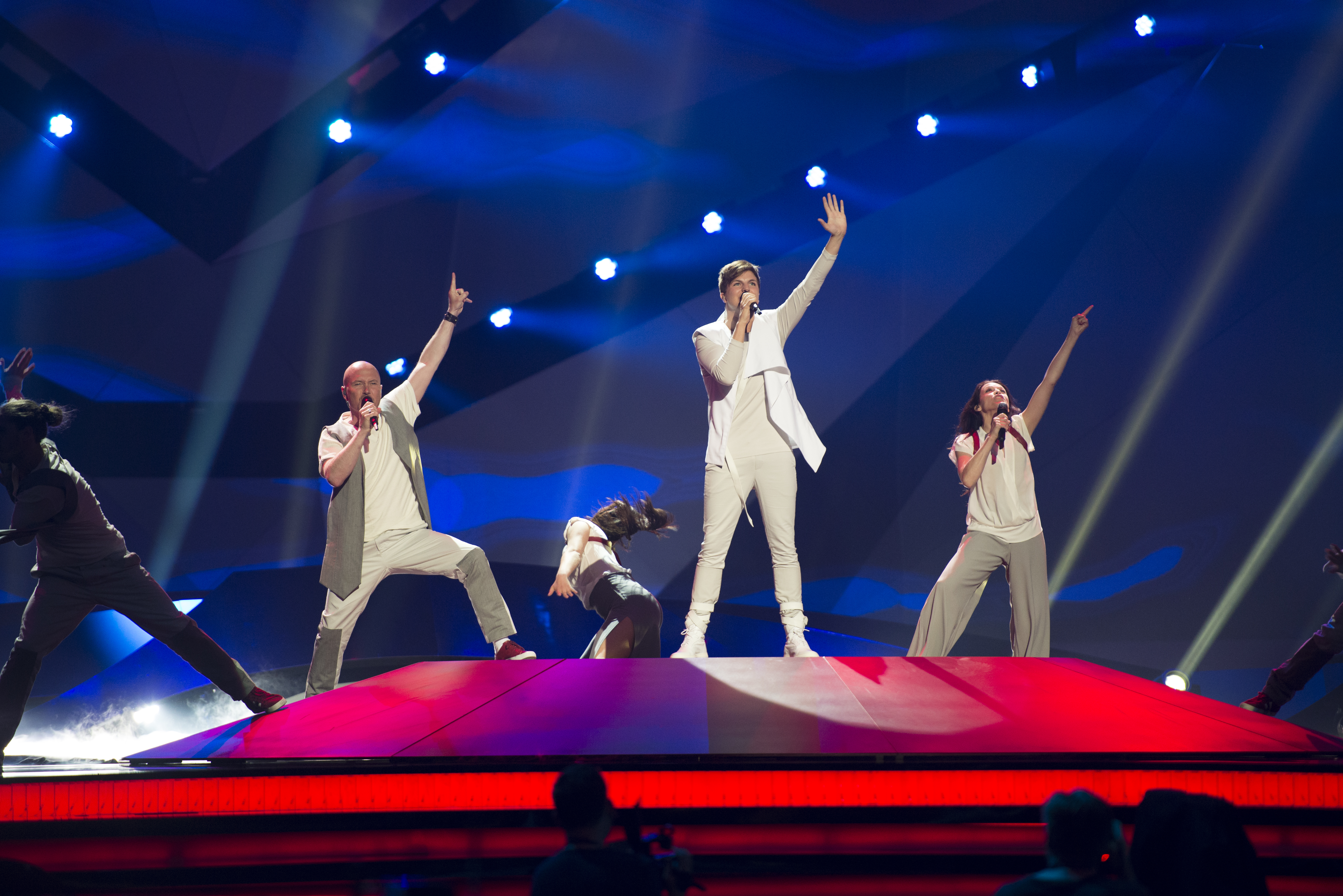 Robin Stjernberg representing Sweden with the song "You" during the first dress rehearsal of the final of the Eurovision Song Contest 2013 in Malmö. (Help translate this text)